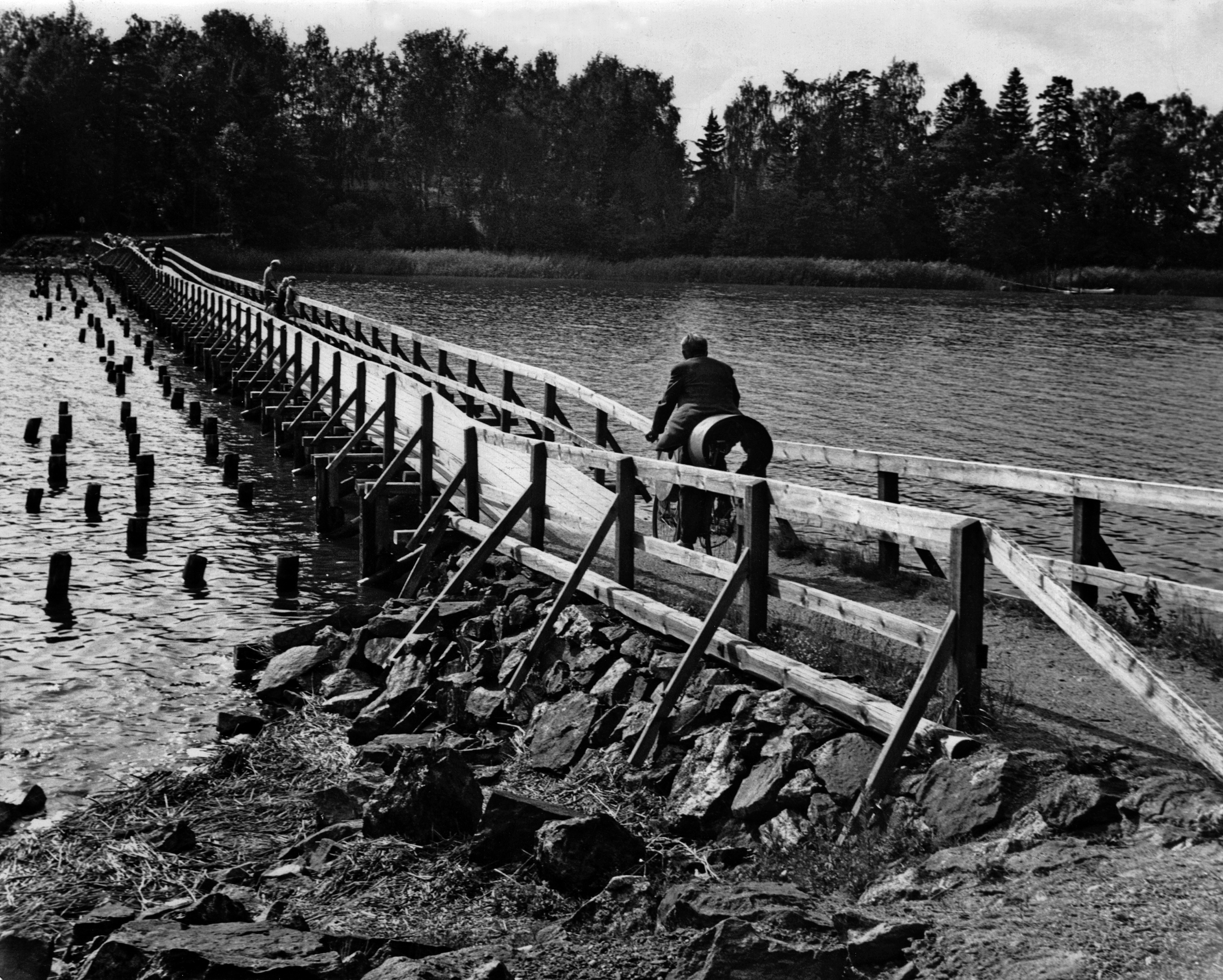 Photograph of a wooden bridge from Lankiniemi to Tarvo island.